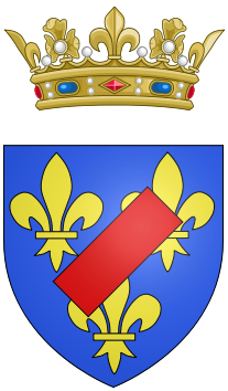 Coat of arms of Louis Alexandre de Bourbon, Légitimé de France, Count of Toulouse